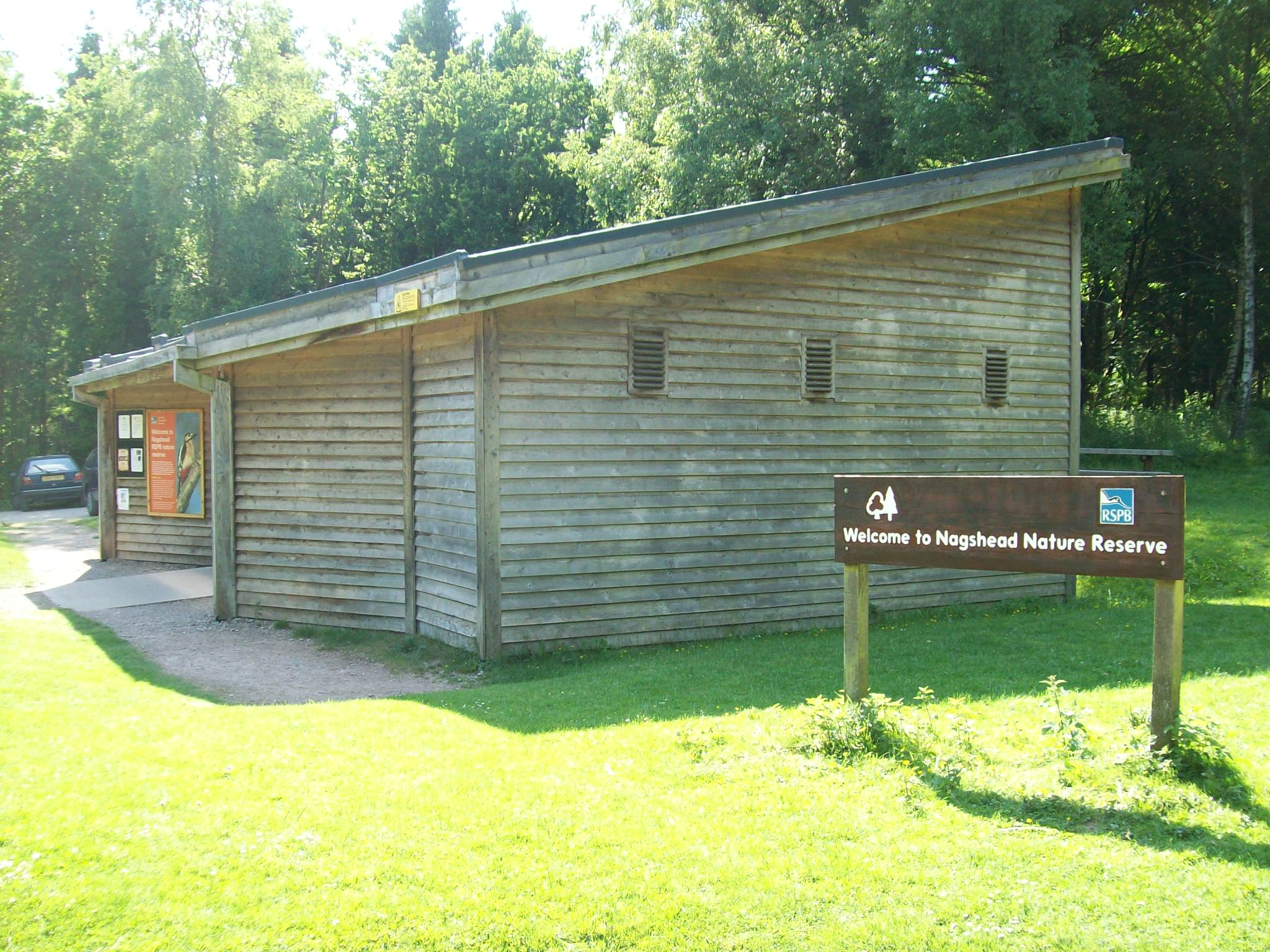 View of Nagshead visitor centre, Parkend.